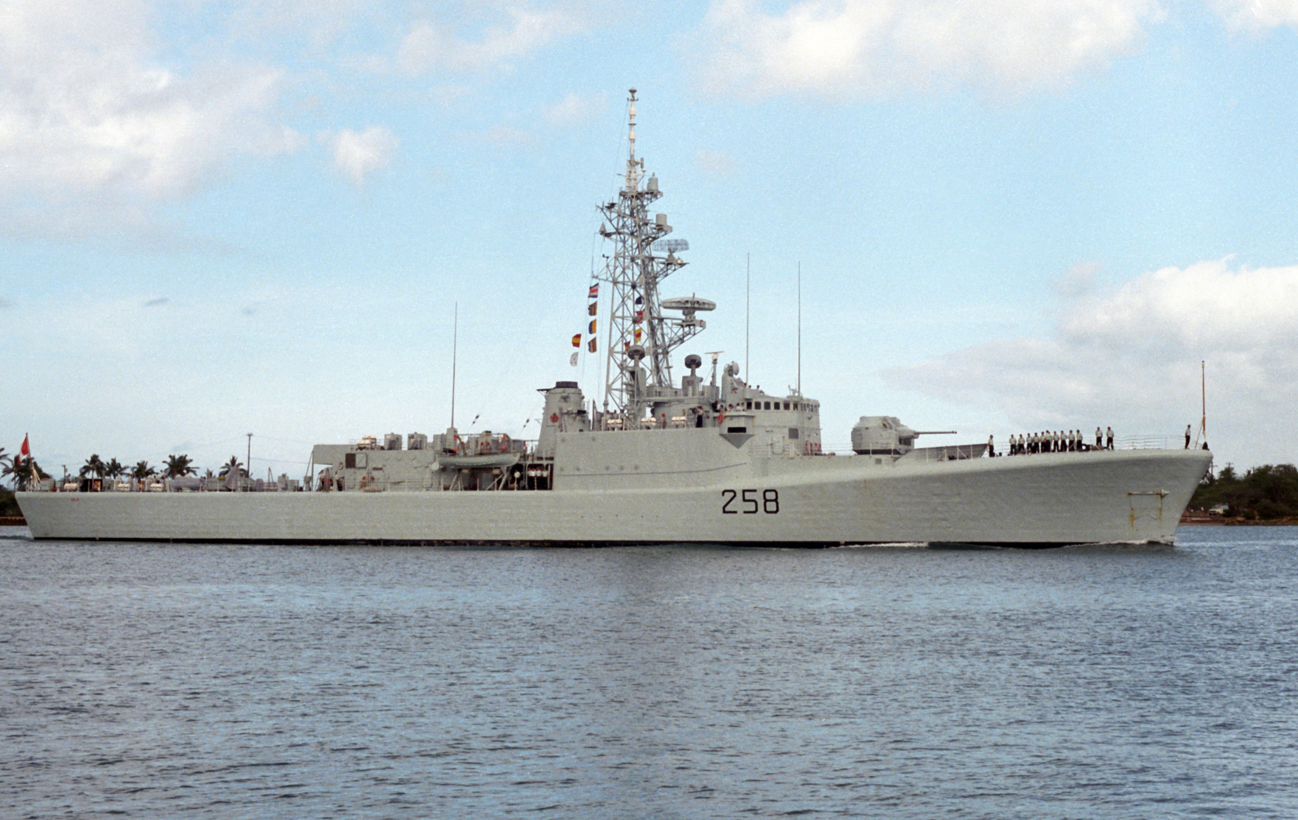 The Canadian escort destroyer HMCS Kootenay (DDE 258) underway at Pearl Harbor, Hawaii (USA), during exercise "RIMPAC '86".